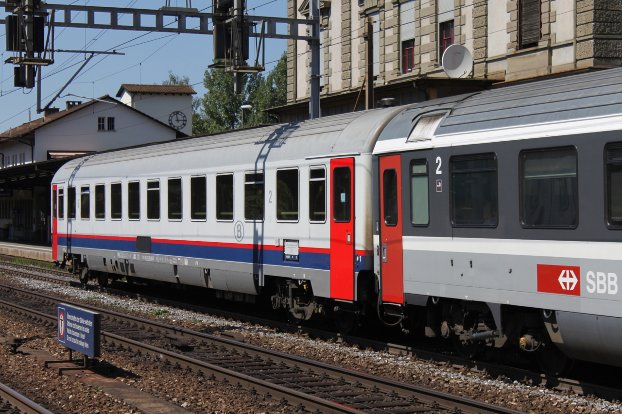 SNCB/NMBS Bm 61 88 21-70 645-3 in the consist of InterRegio 91 "Vauban" from Bruxelles-Midi to Chur at Liestal train station.